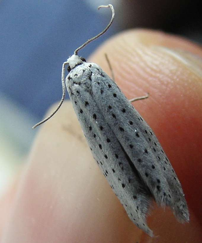 Yponomeuta sp. (Y. padella?), found dead in Cologne, Germany: top view.